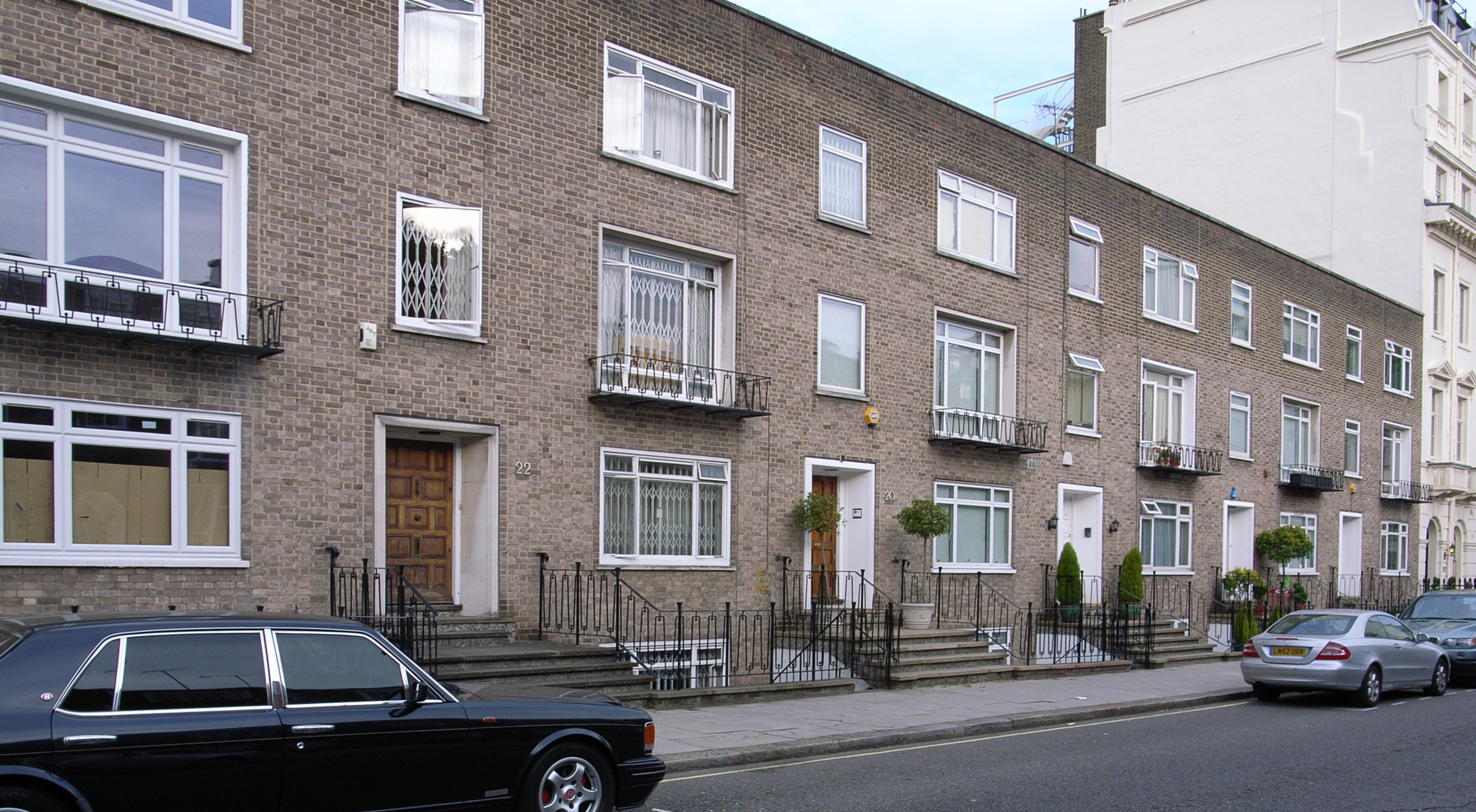 14-24 Hyde Park Street (1959-60) by Wates Architects' Department. Photo taken on a Twentieth Century Society walk around the Hyde Park Estate, Paddington.